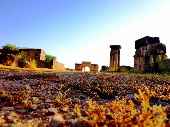 Ruins of Volubulis in Morocco